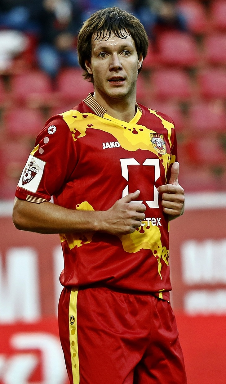 Aleksandr Gorbatyuk with FC Arsenal Tula in a game against FC Lokomotiv Moscow.